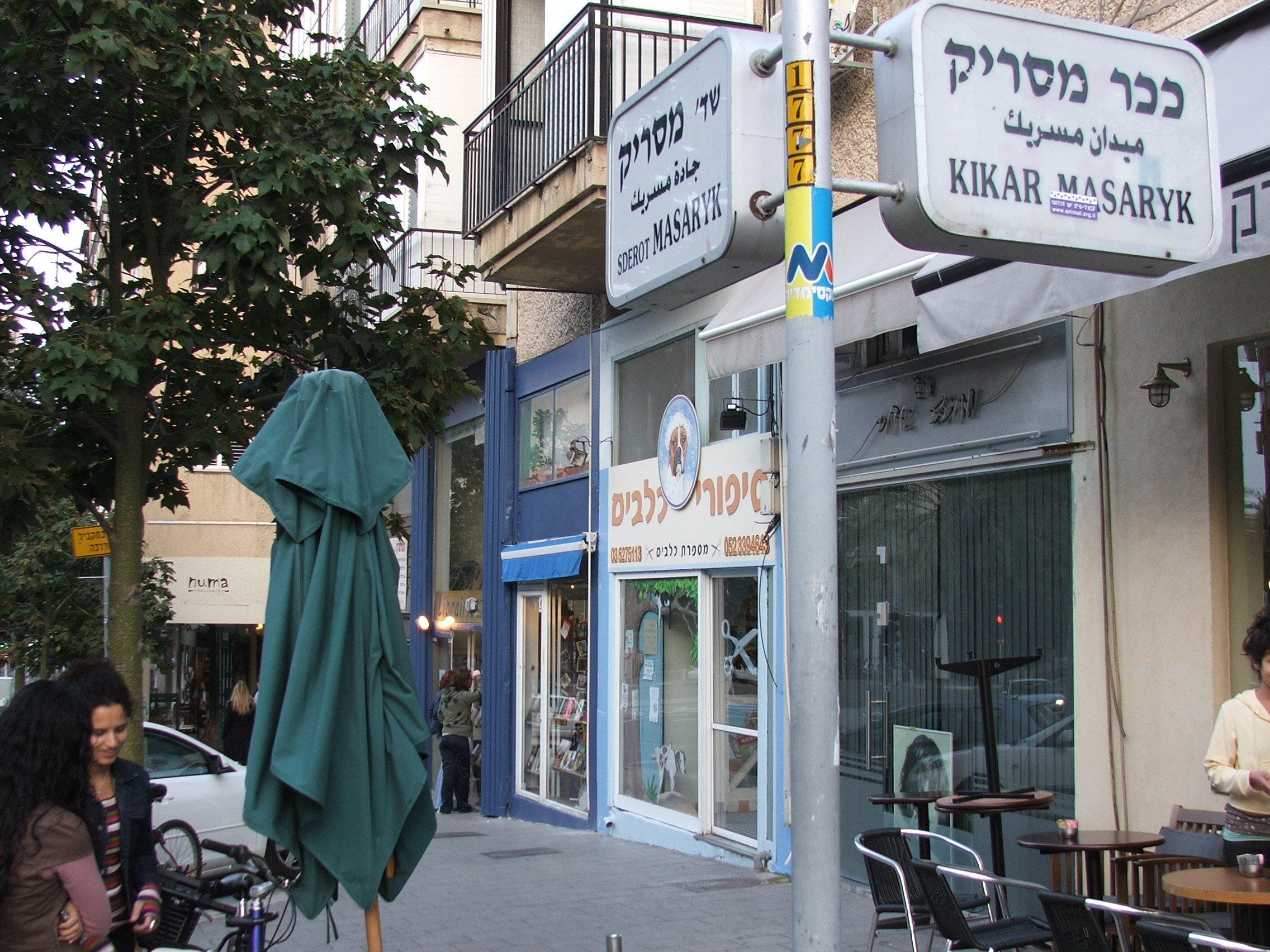 Masaryk Square and Masaryk Street in Tel Aviv, Israel.